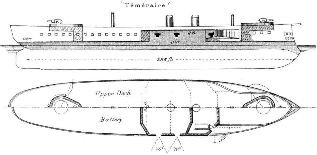 Diagrams showing right elevation and deck plan of British ironclad battleship HMS Temeraire (1876).